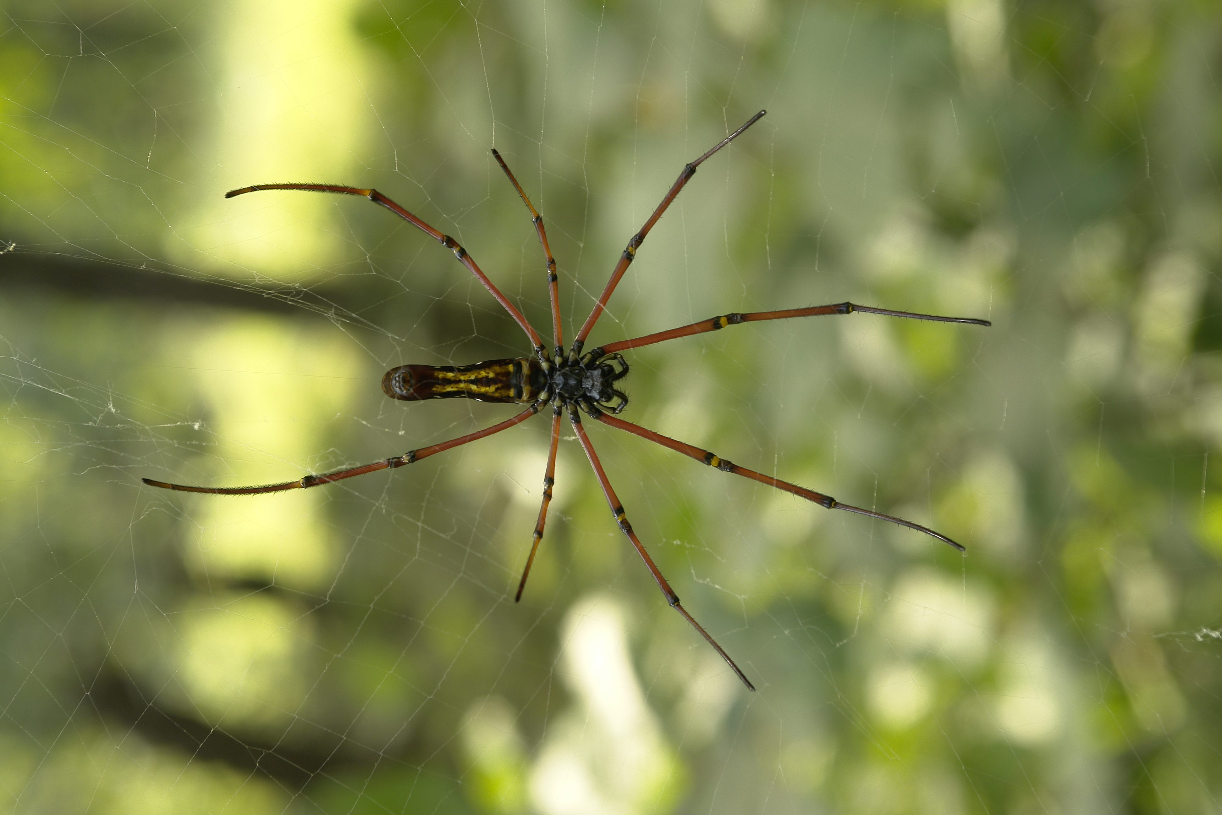 Female Golden Orb Web Spider, or Giant Wood Spider (Nephila pilipes), ventral side, Bhimbetka, Raisen district, Madhya Pradesh, India. (about 25 cm long!)